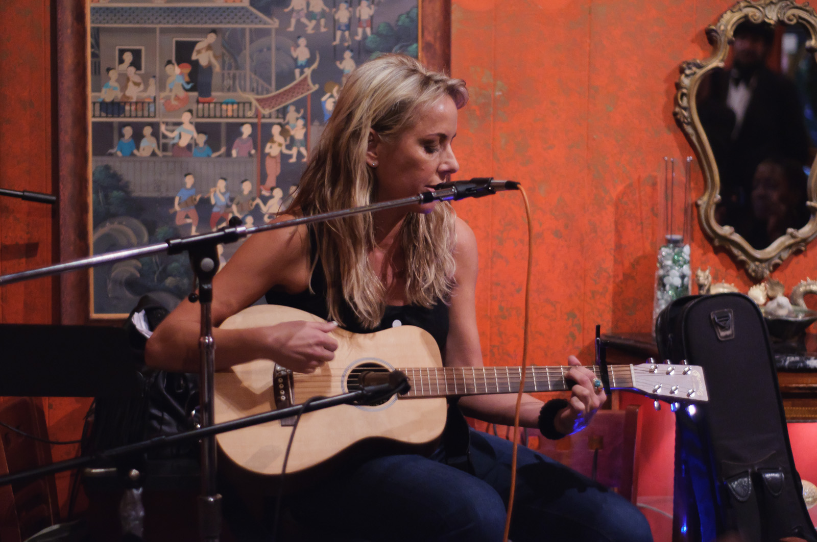 Simply Thai, a cozy Thai restaurant in the Los Feliz neighborhood of Los Angeles, hosts performances of many musicians and comedians on Tuesday nights. I am dropping by on a night when the headlining act is a stand-up comedy act by actress Rachel Reenstra, who is best known as the former host of HGTV's "Designed to Sell." I had been a friend of hers via Facebook for a while, but this is my first encounter with her in person.